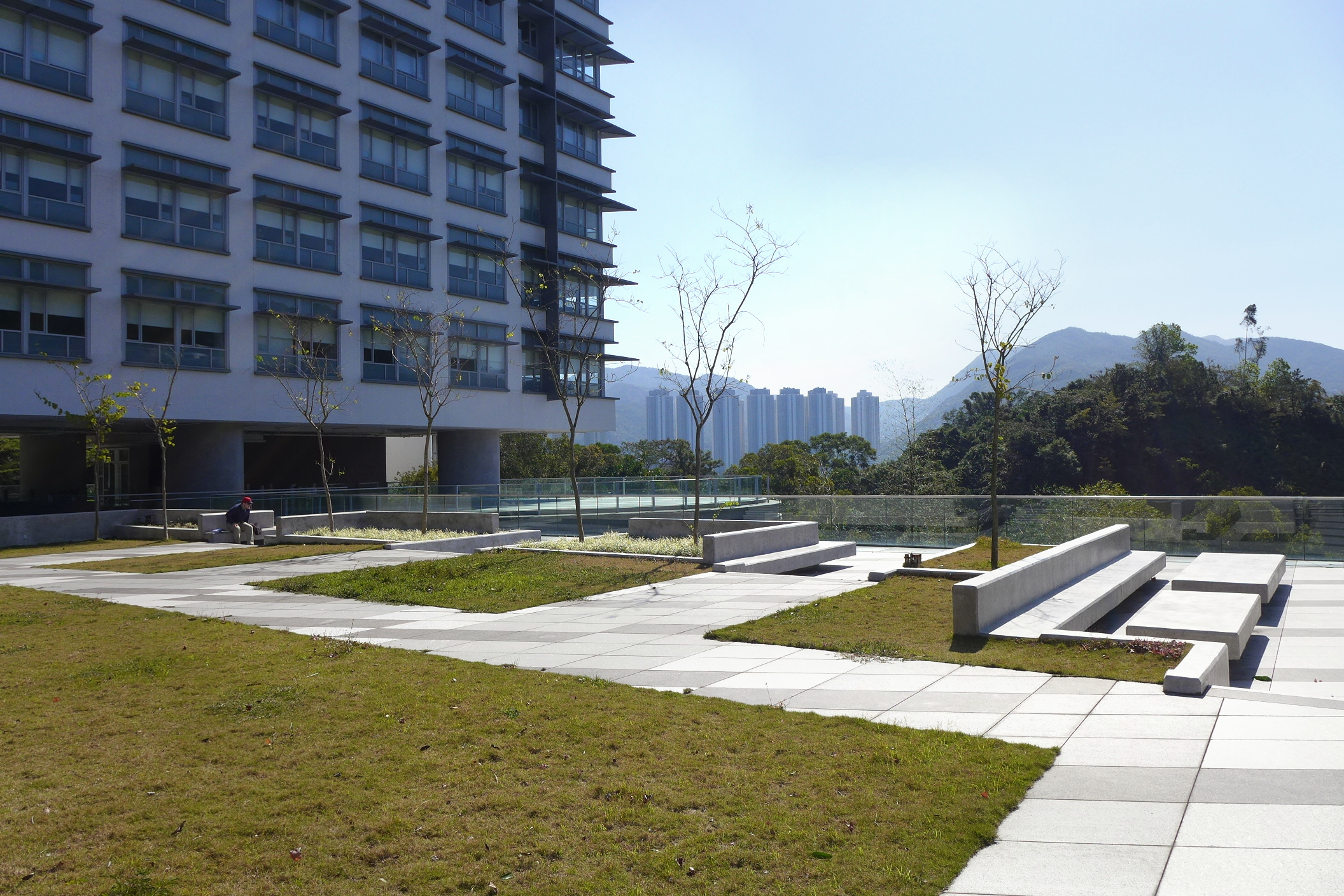 Yasumoto International Academic Park Podium